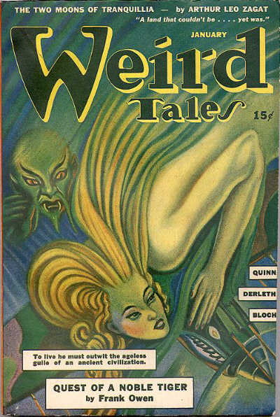 Cover of the pulp magazine Weird Tales (January 1943, vol. 36, no. 9) Quest of a Noble Tiger by Frank Owen. Cover art by A. R. Tilburn.